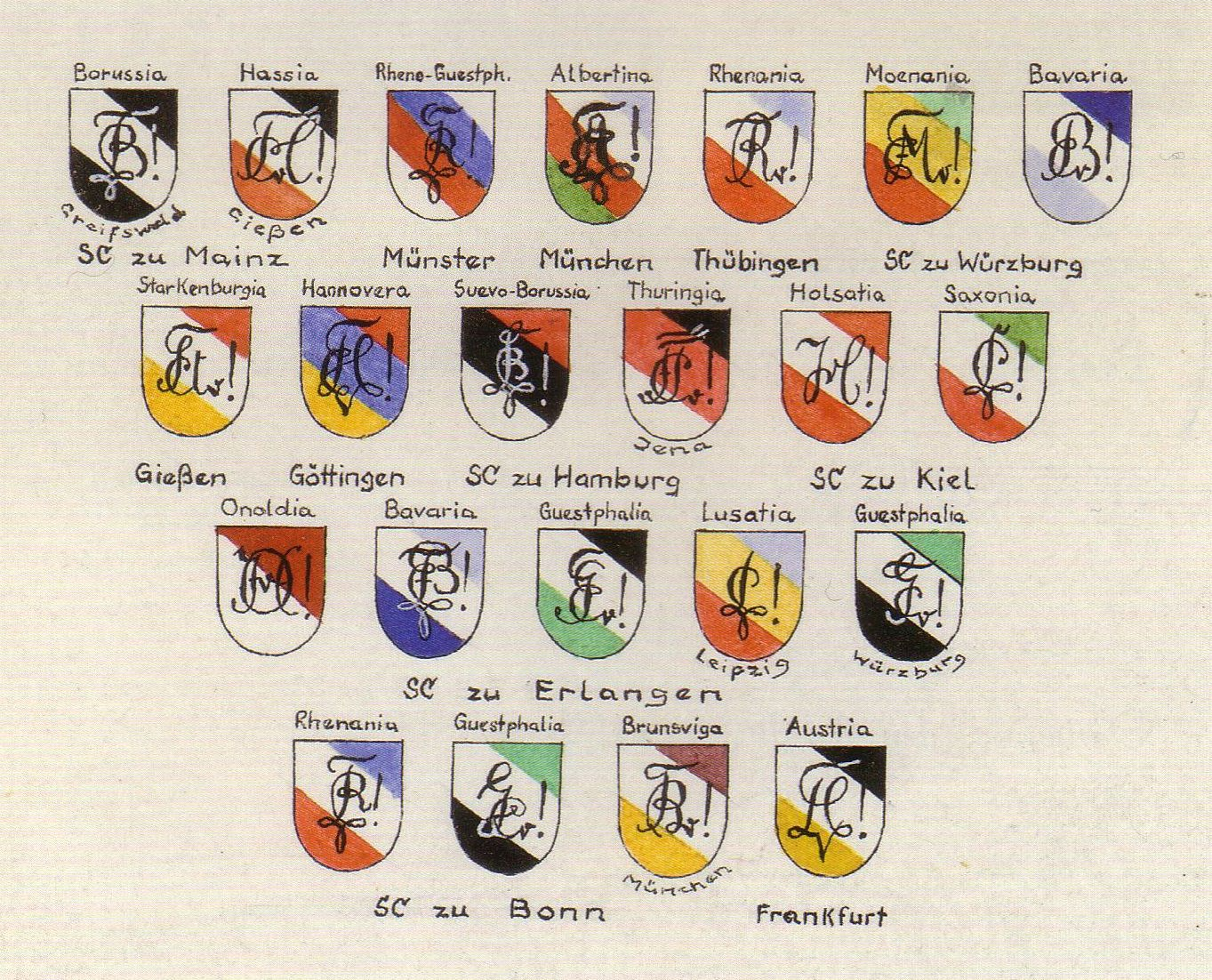 Coats of arms of the Kösen corps restituting the KSCV in 1950